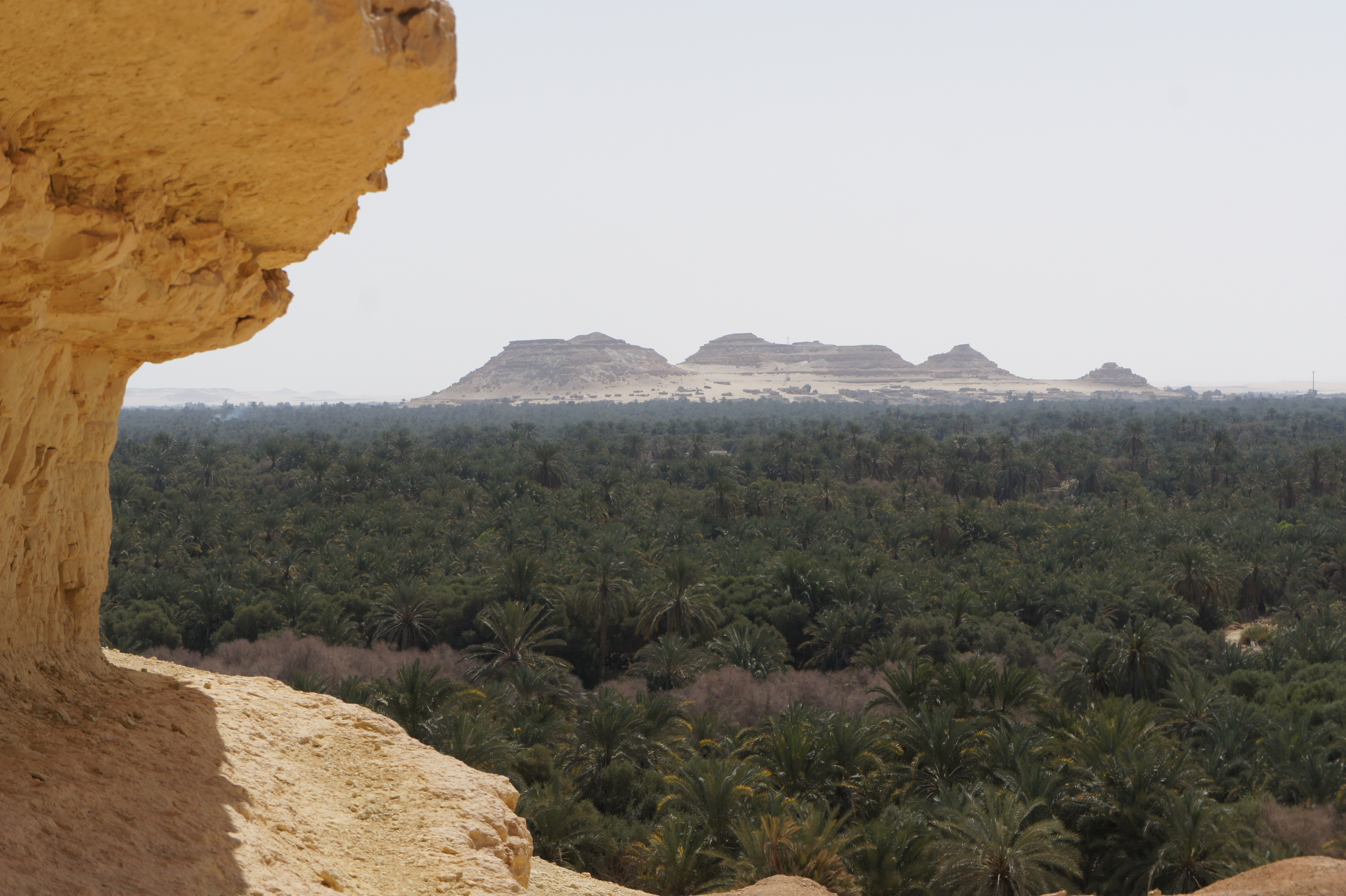 Siwa Oasis, Egypt, view from Tomb Mountain